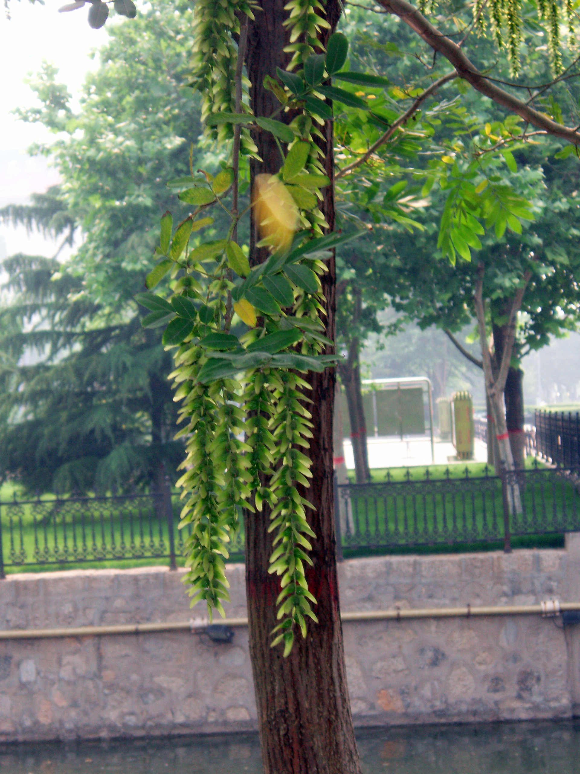 Chinese wingnut tree